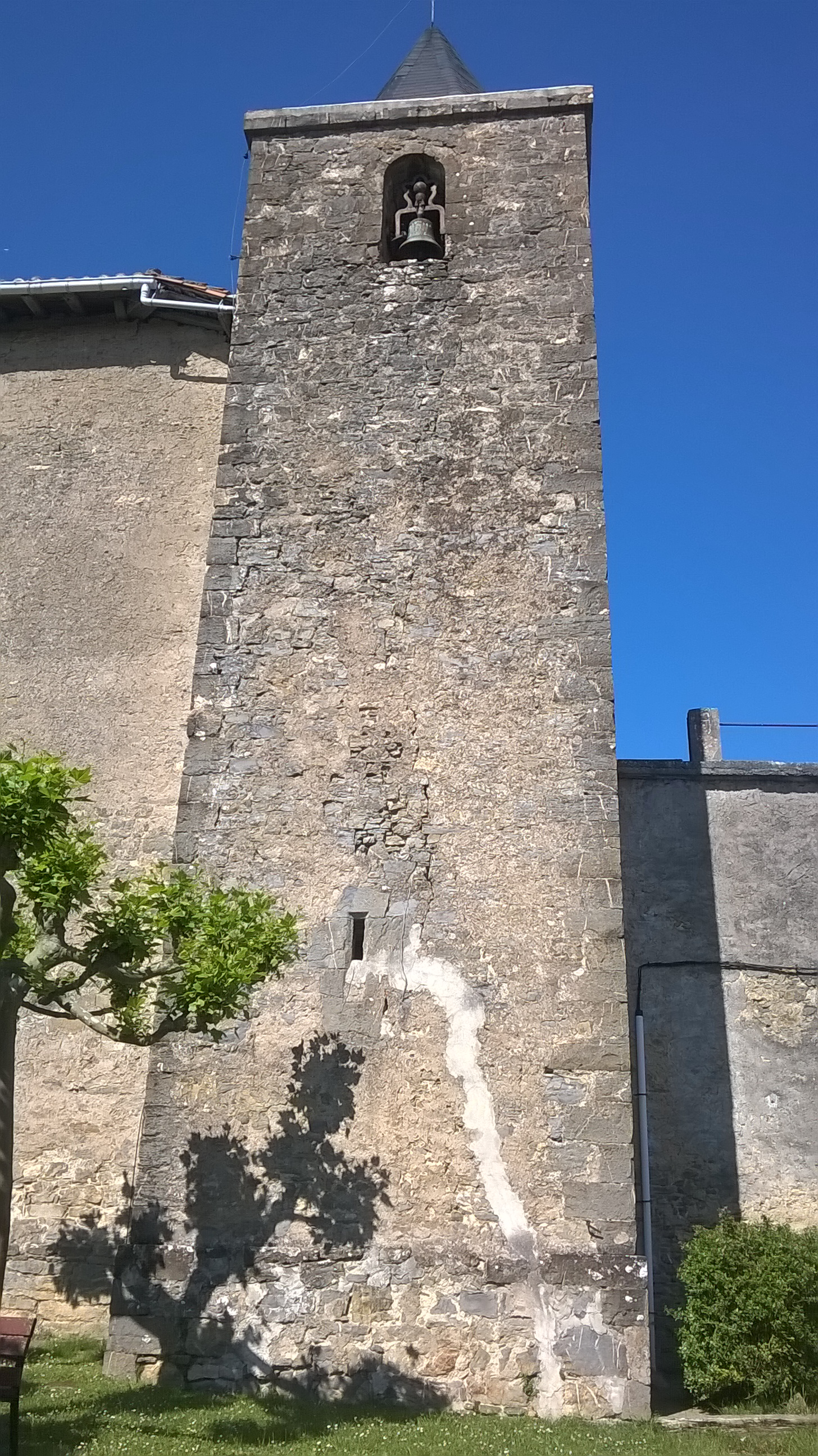 Gaintza, Gipuzkoa, Basque Country